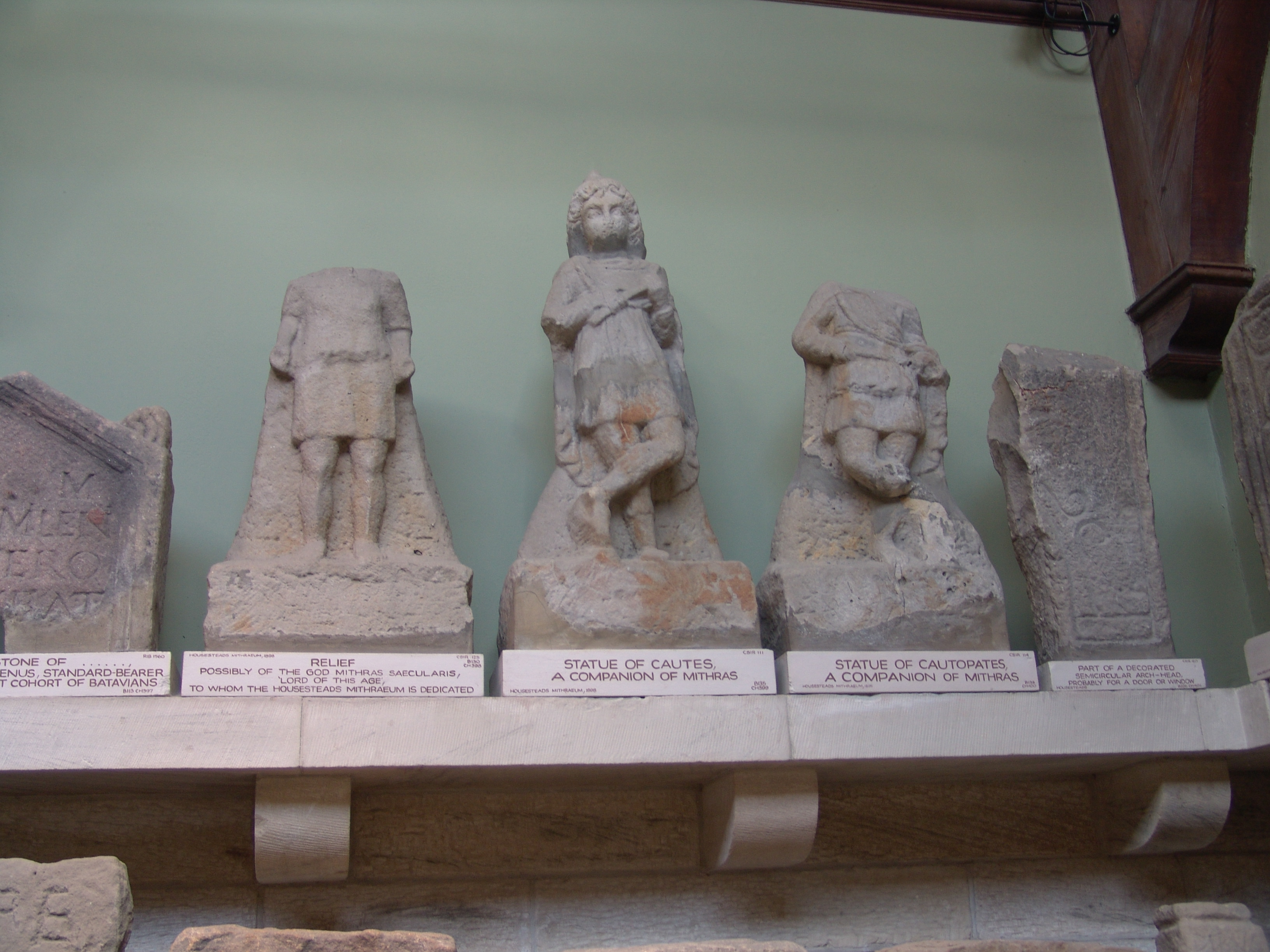 Hadrian's Wall